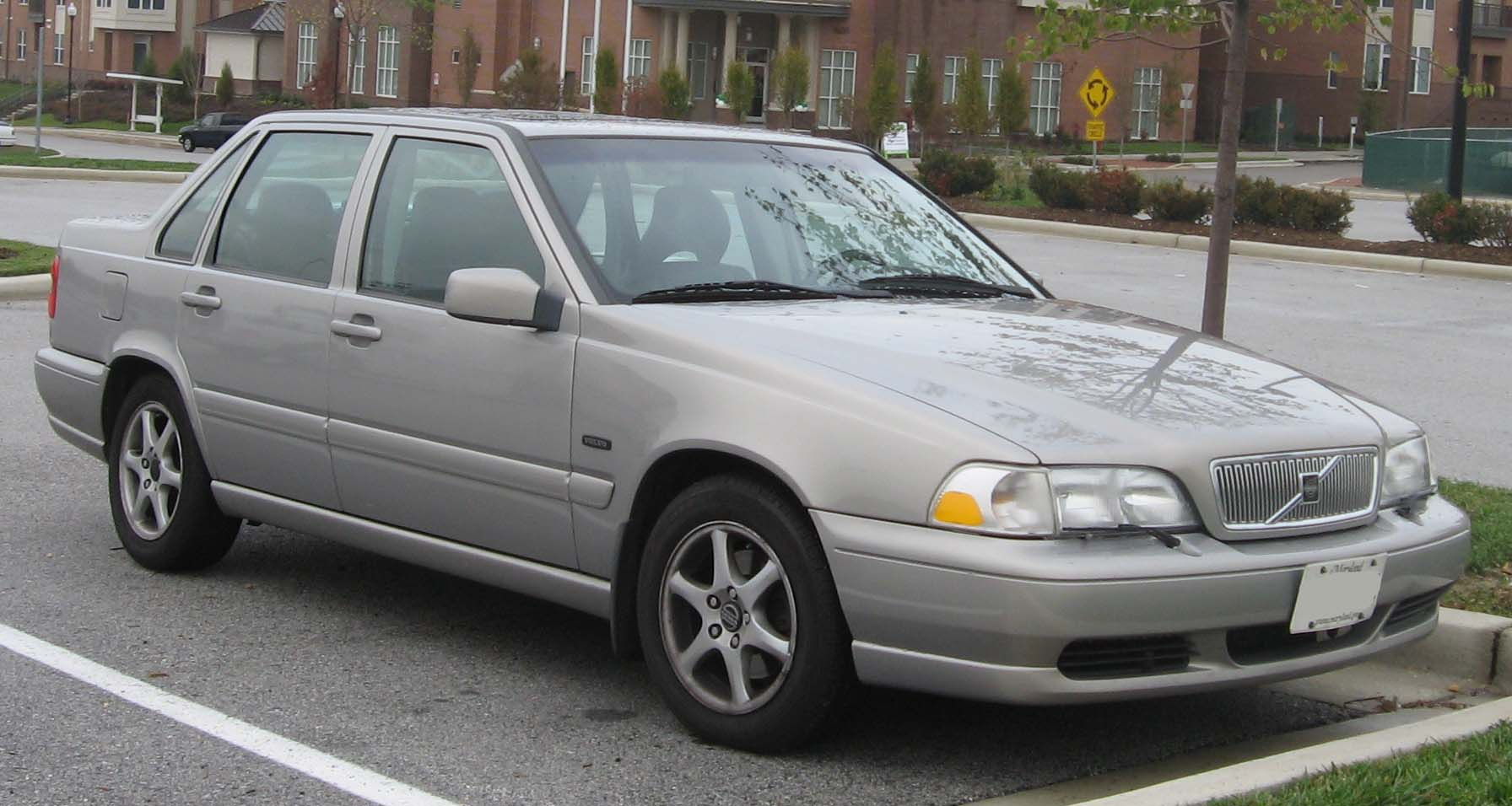 Volvo S70 photographed in College Park, Maryland, USA.